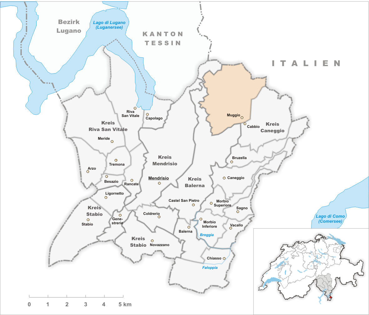 Municipality Muggio